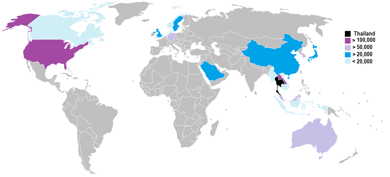 The Population of Thai People throughout the world